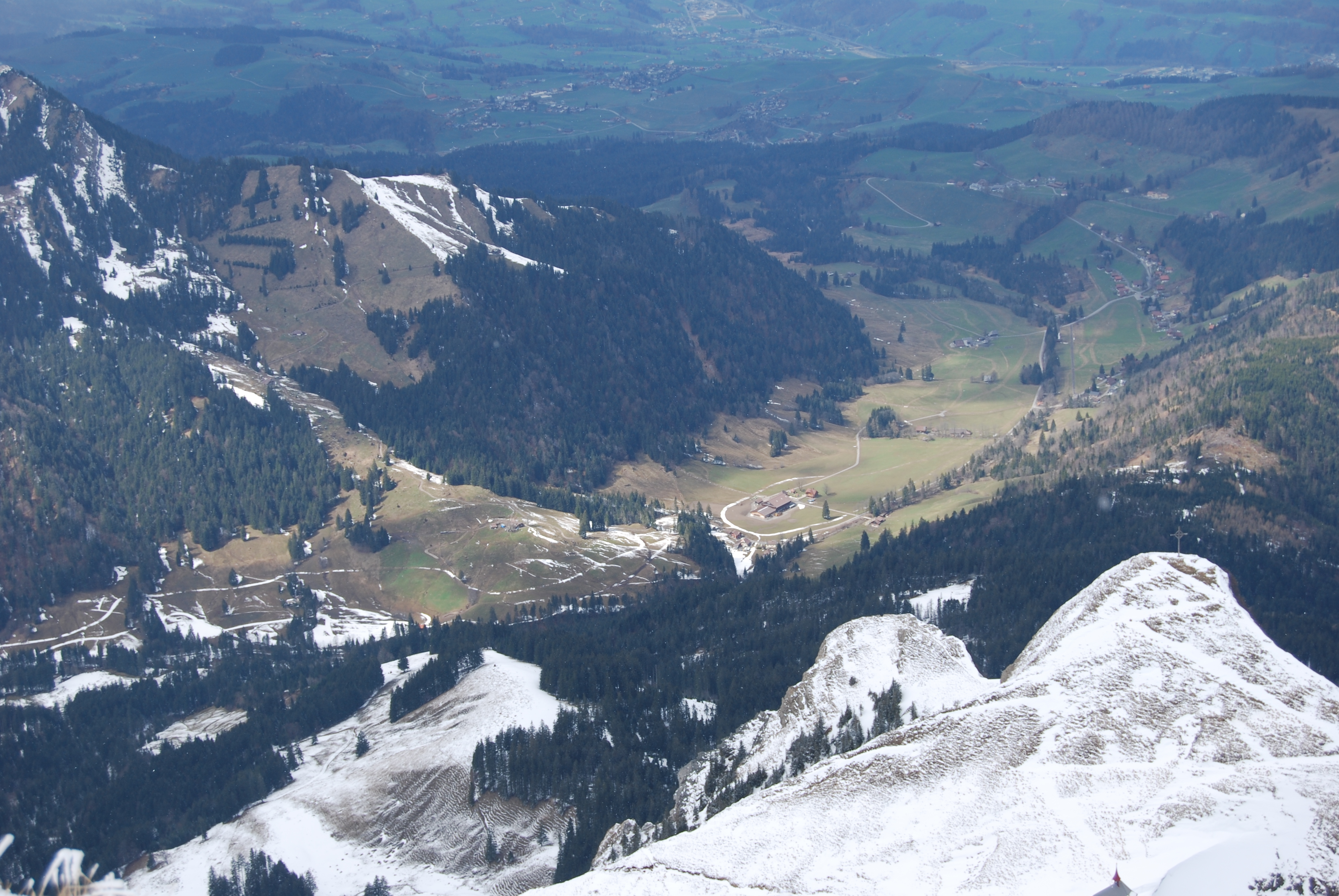 View from Pilatus to Eigenthal and Schwarzenberg, canton of Luzern, Switzerland.